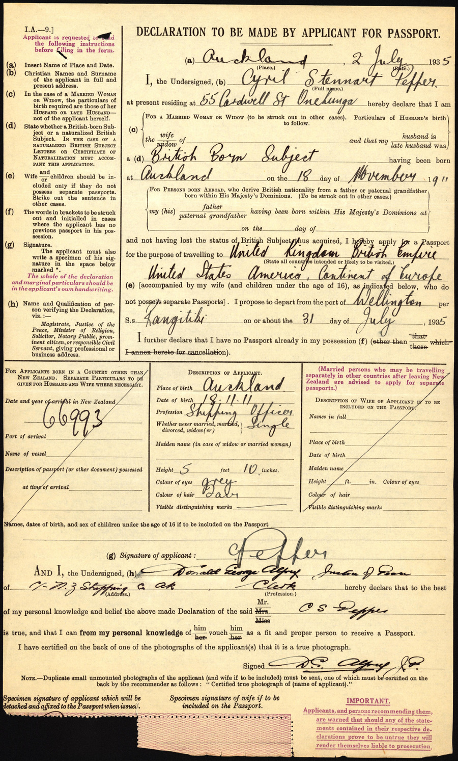 Archives New Zealand Reference: ACGO 8333 IA1 1350 / 15/11/59182